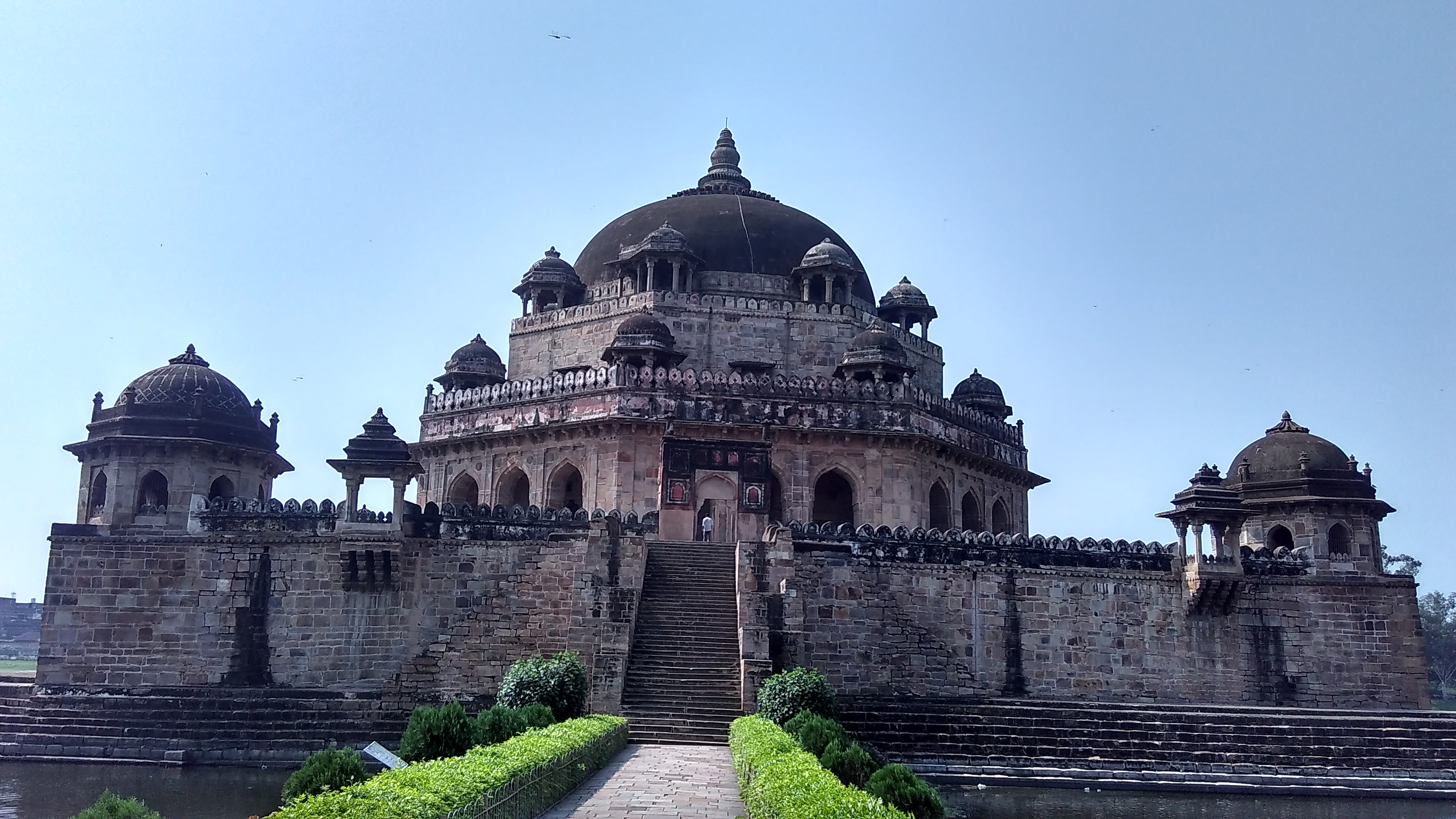 Sher Sha Tomb, Sasaram